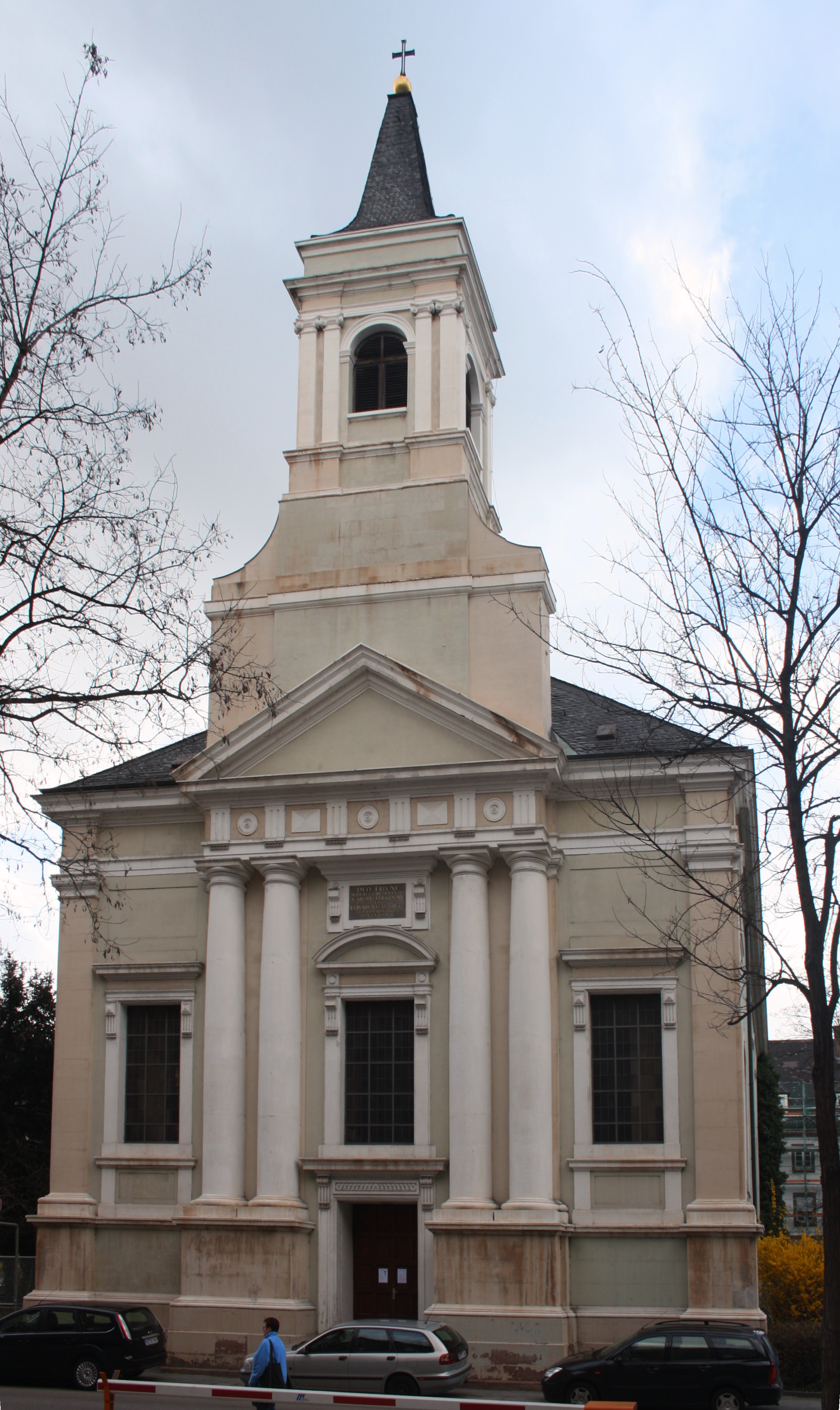 Mannheim, Germany. Church of the former burghers' hospital from West.